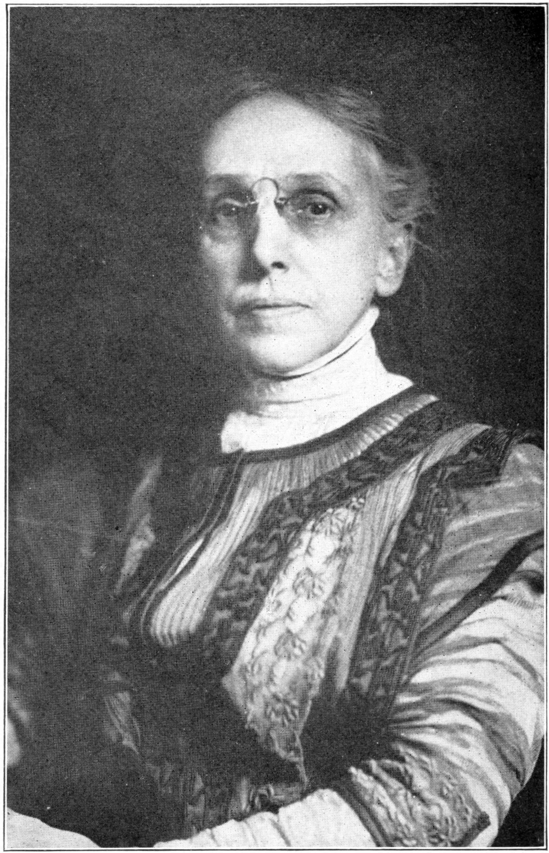 Ella Flagg Young.